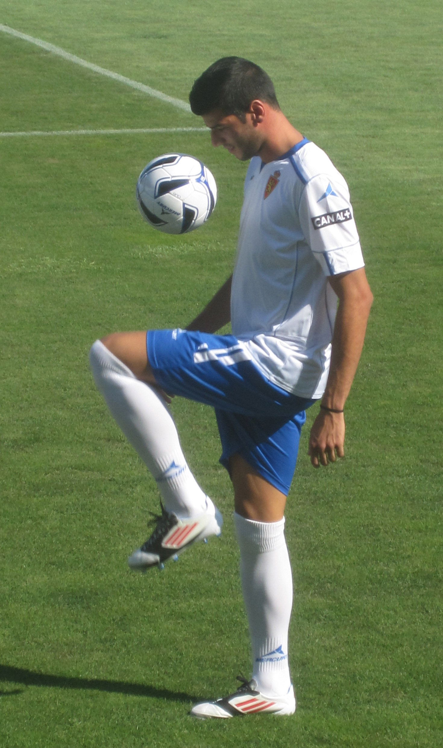 eL JUGADOR DEL rEAL Zaragoza, Javi Alamo el día de su presentacion.